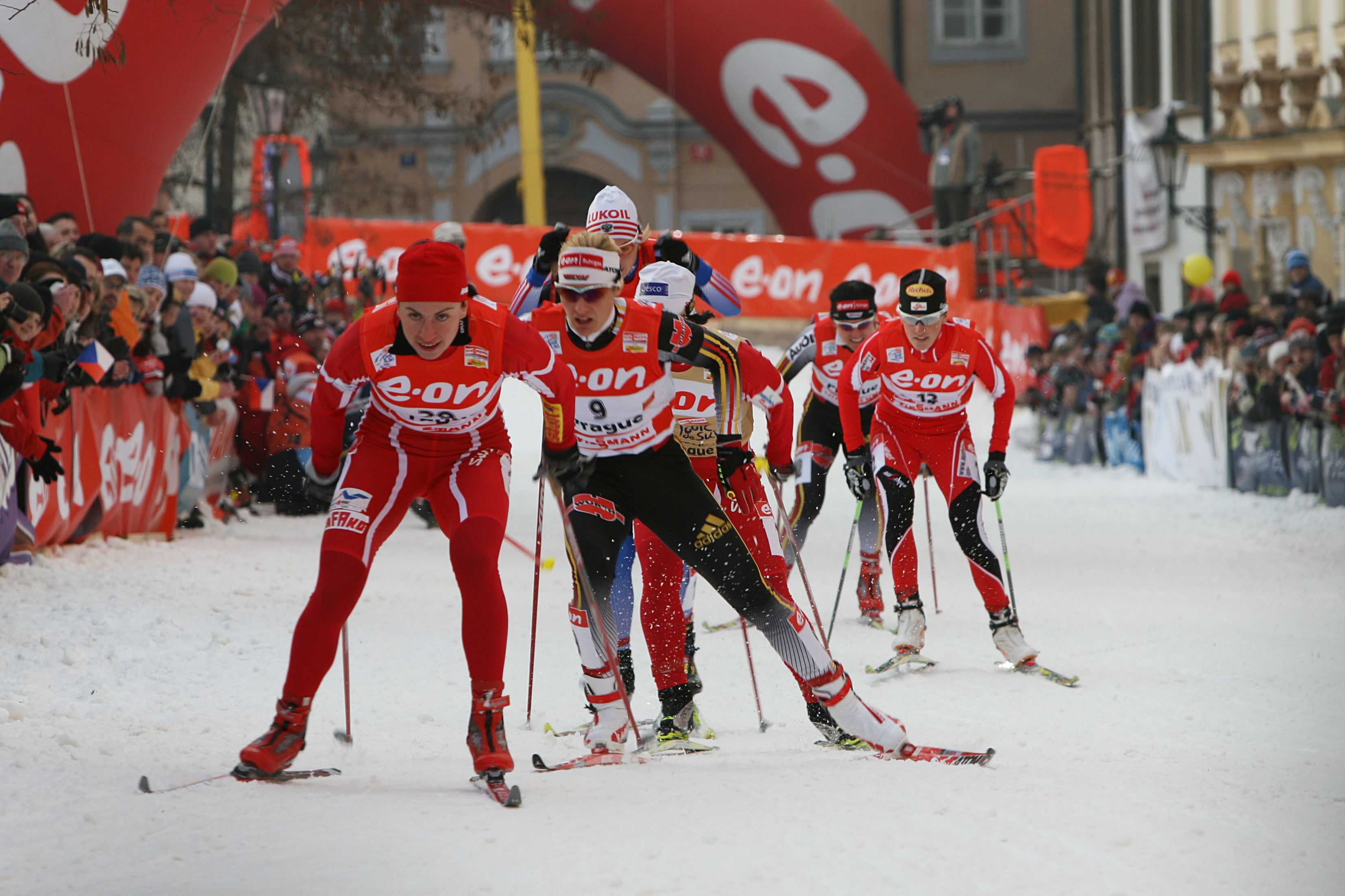 Justyna Kowalczyk (29) in the quaterfinals of Tour de Ski in Prague